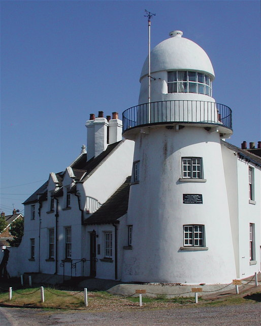 The "Old Lighthouse", Paull, East Riding of Yorkshire, England.Paull Lighthouse was built in 1836 by Trinity House, Hull. The lighthouse went out of use in 1870 when the sandbanks moved and caused the deepwater channel to shift, and new lighthouses were built just along the river bank at Thorngumbald Clough. The light was powered first by oil and then by a gas burner, the windows of the lamp room facing towards Hull to guide ships into the safe channel which led out into the North Sea [information provided by Holderness Rangers at